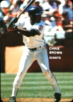 A baseball card of the San Francisco Giants' third baseman Chris Brown from the 1985 Mother's Cookies San Francisco Giants trading cards set. The card is numbered #18 in the set.